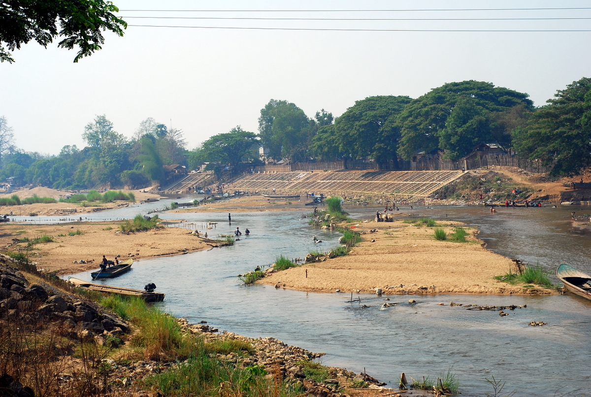 Two countries, Thai-Myanmar Friendship Bridge